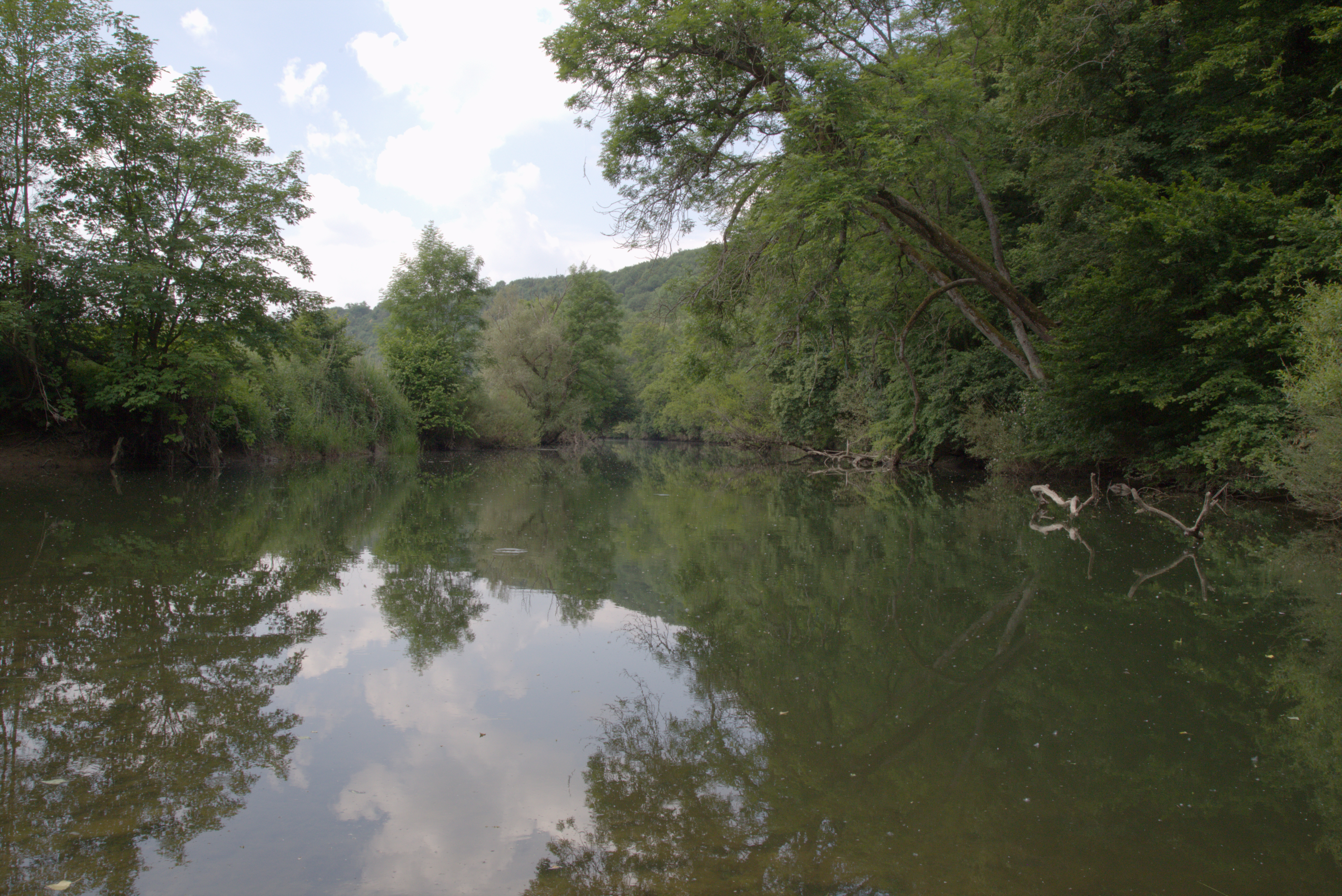 Nature reserve Niedschleife (Germany / Saarland / county Saarlouis)